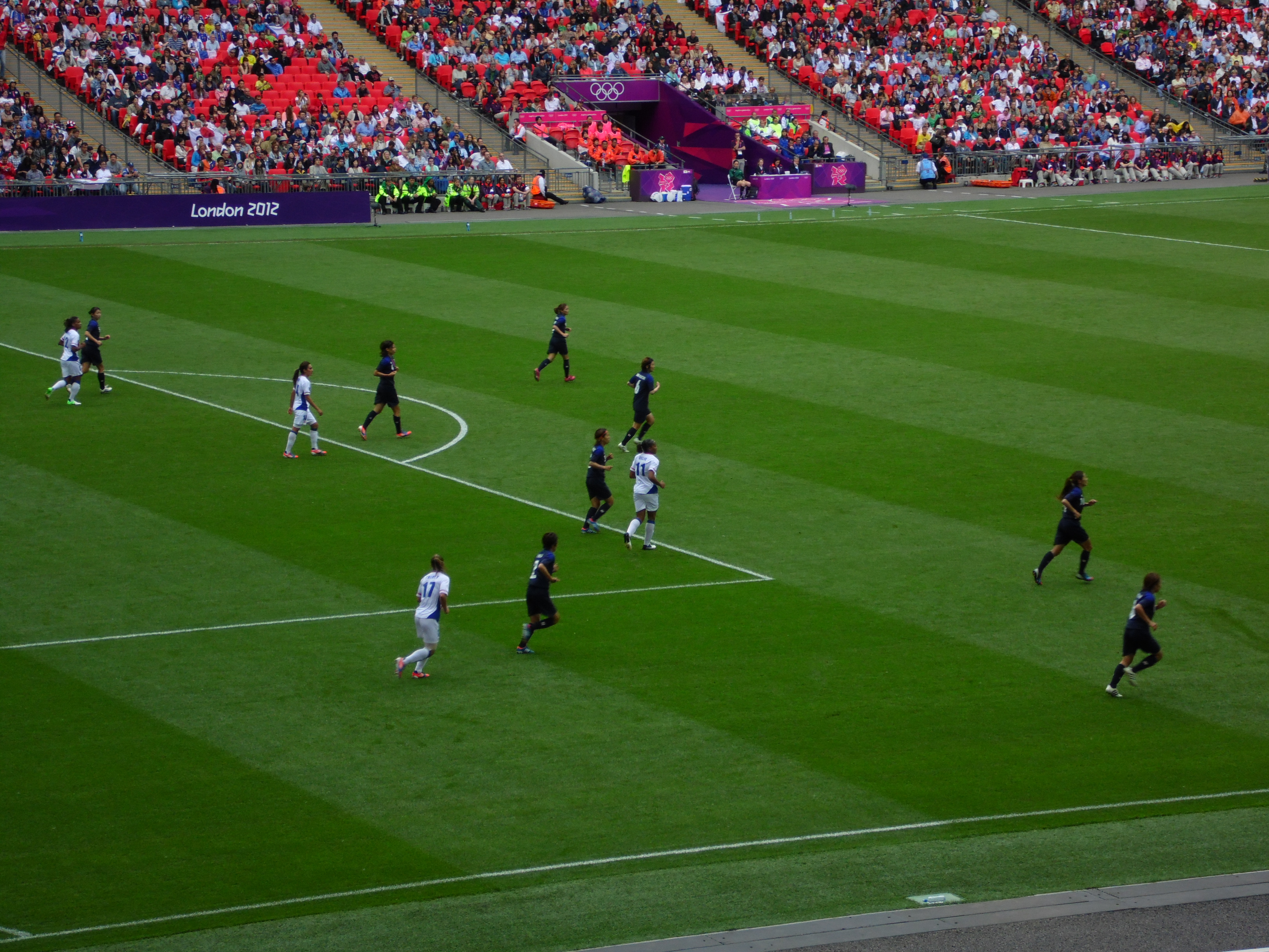 France vs. Japan at the 2012 Summer Olympics.